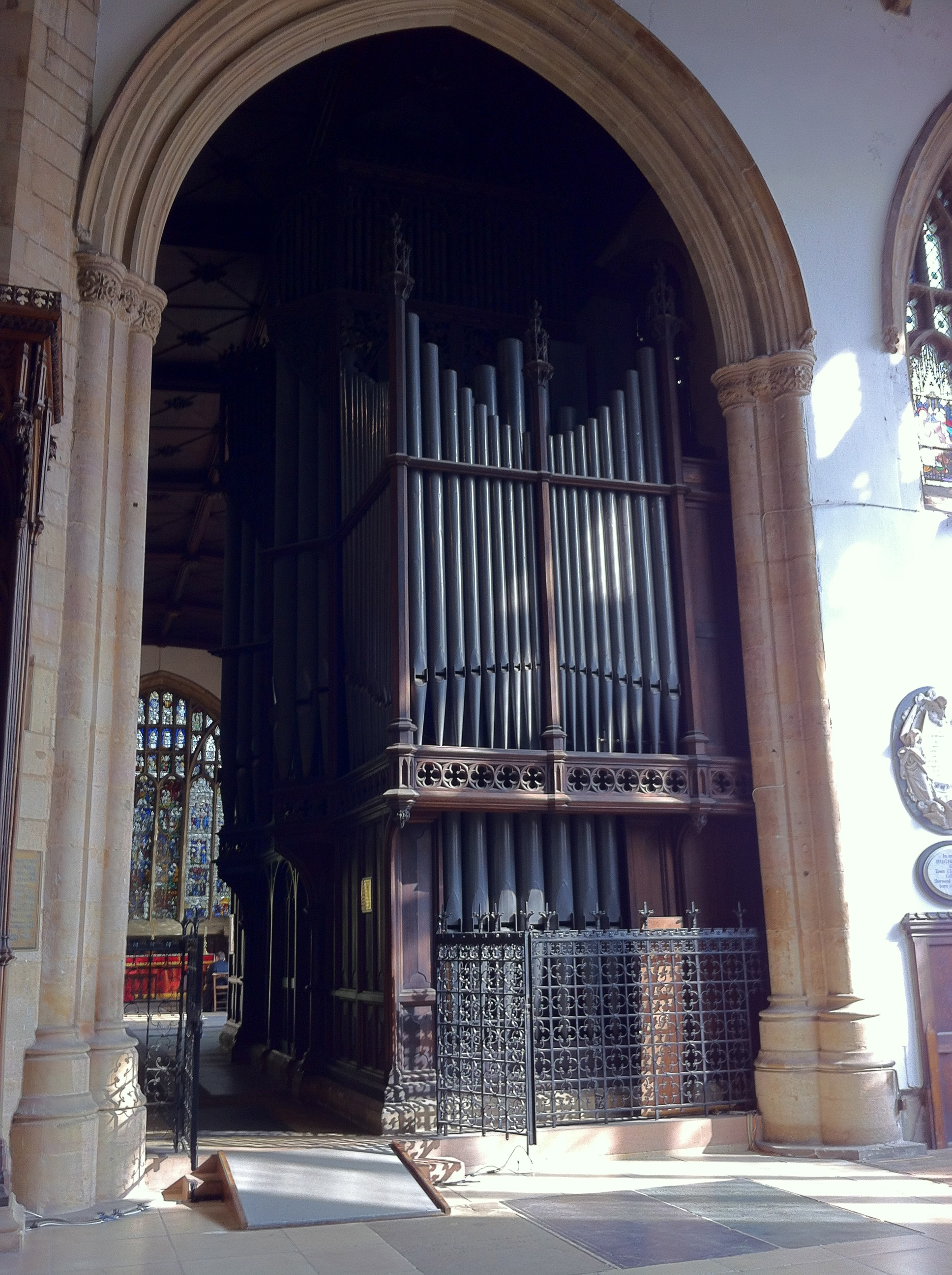 The organ in St Mary Magdalene's Parish Church, Newark